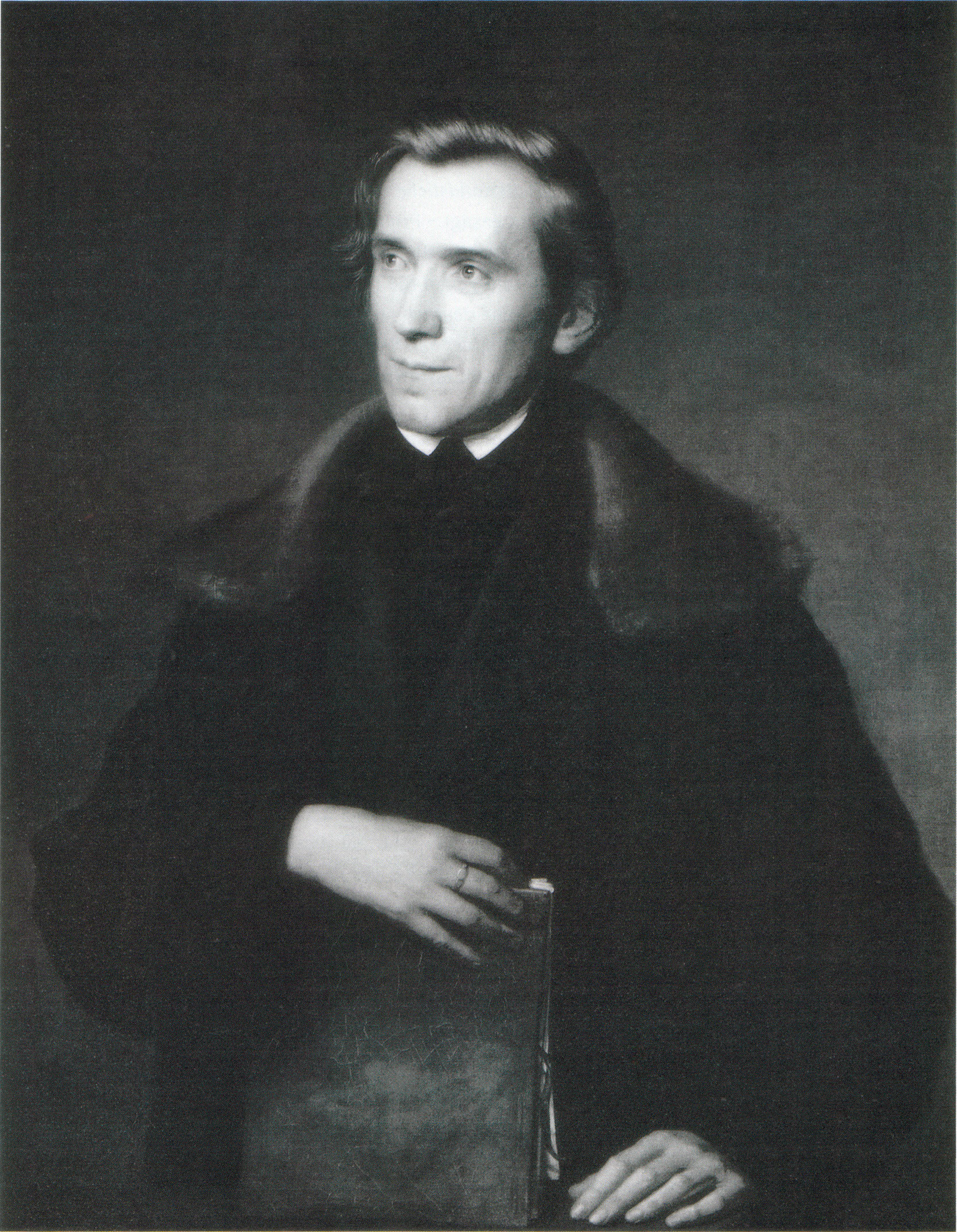 Ludwig Richter, oil on canvas, 1851